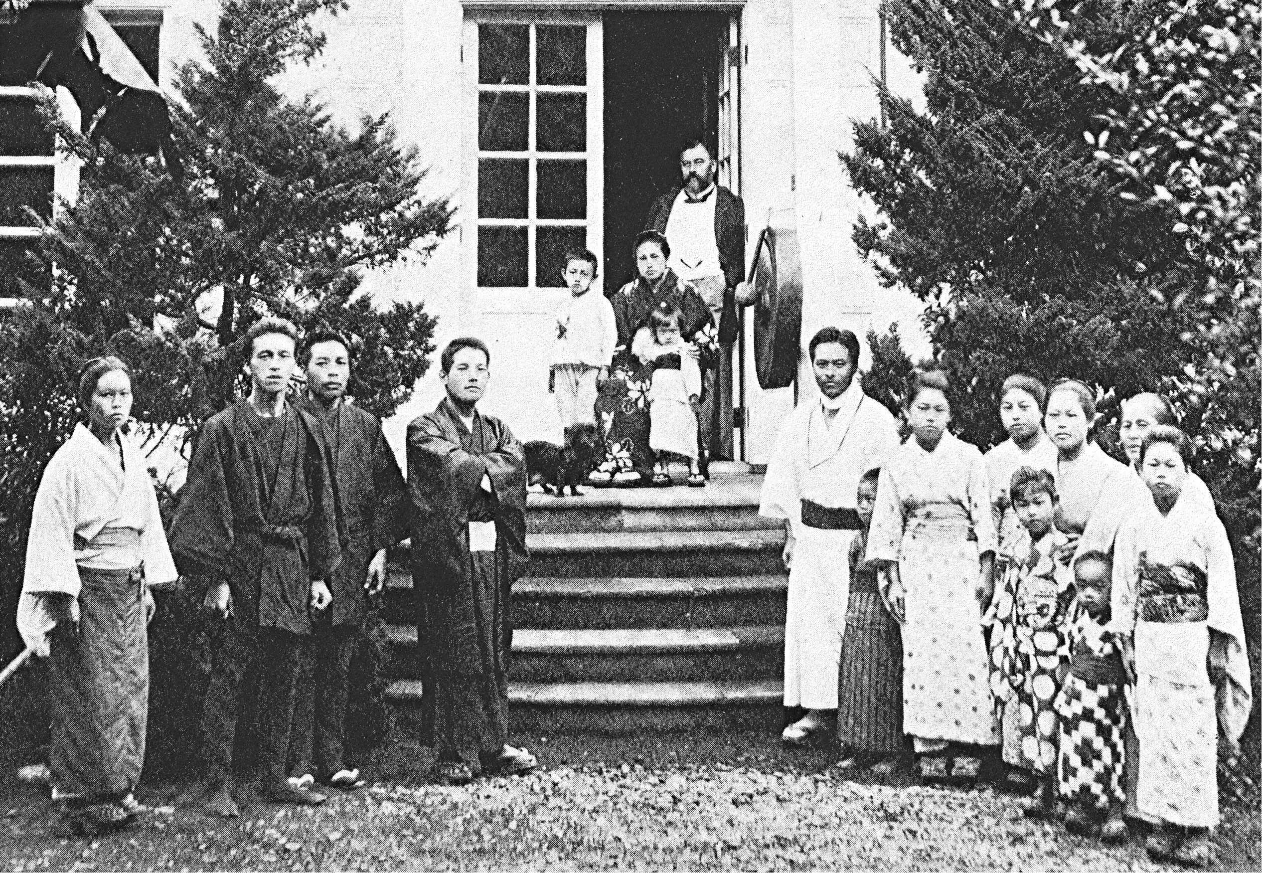 Dr. Erwin Bälz in front of his house at Tokyo, before 1906